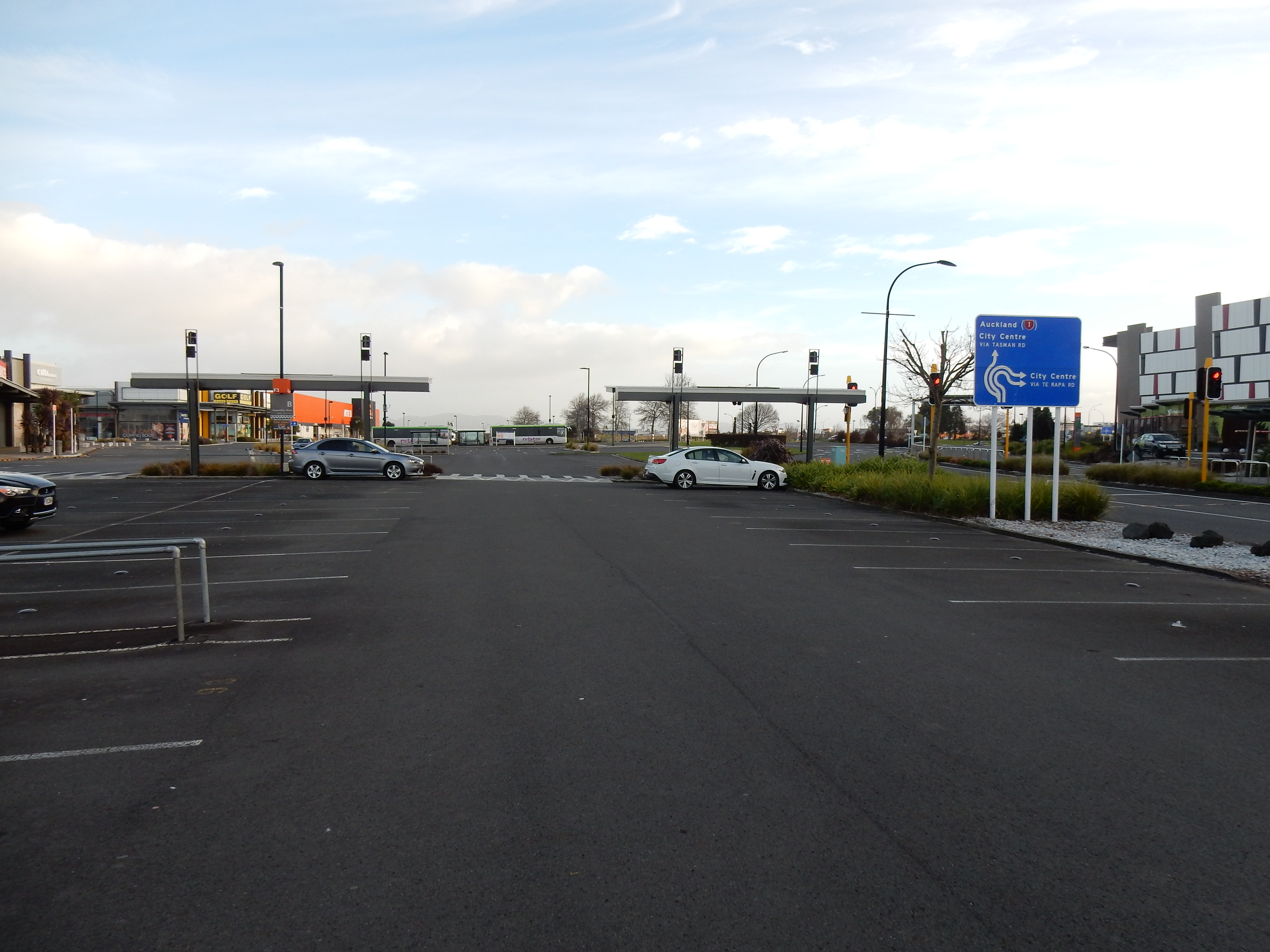 In the middle distance is the bus station, a lengthy walk from most shops.